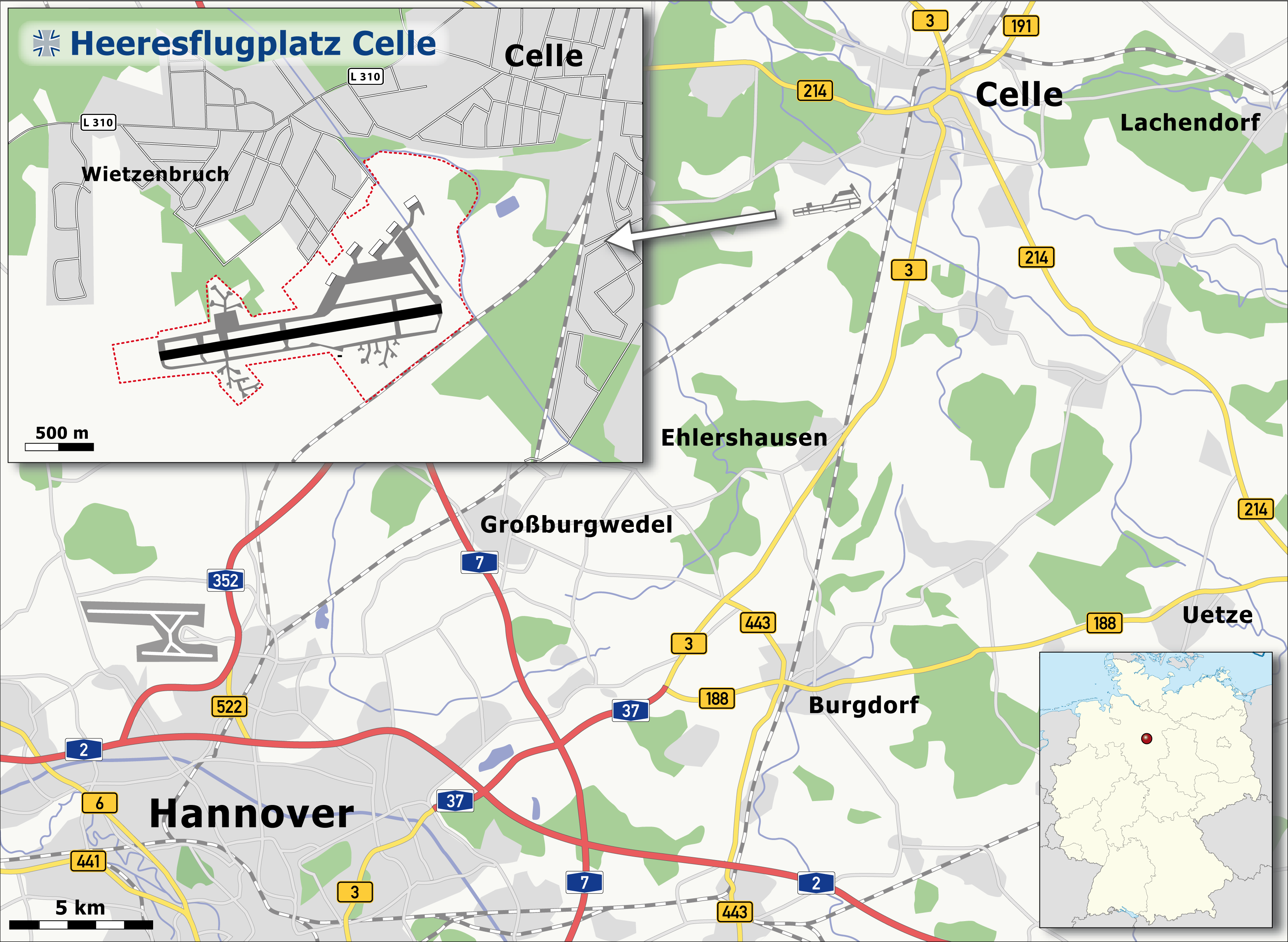 Map of the Federal Armed Forces Airfield in Celle (Germany) German Version